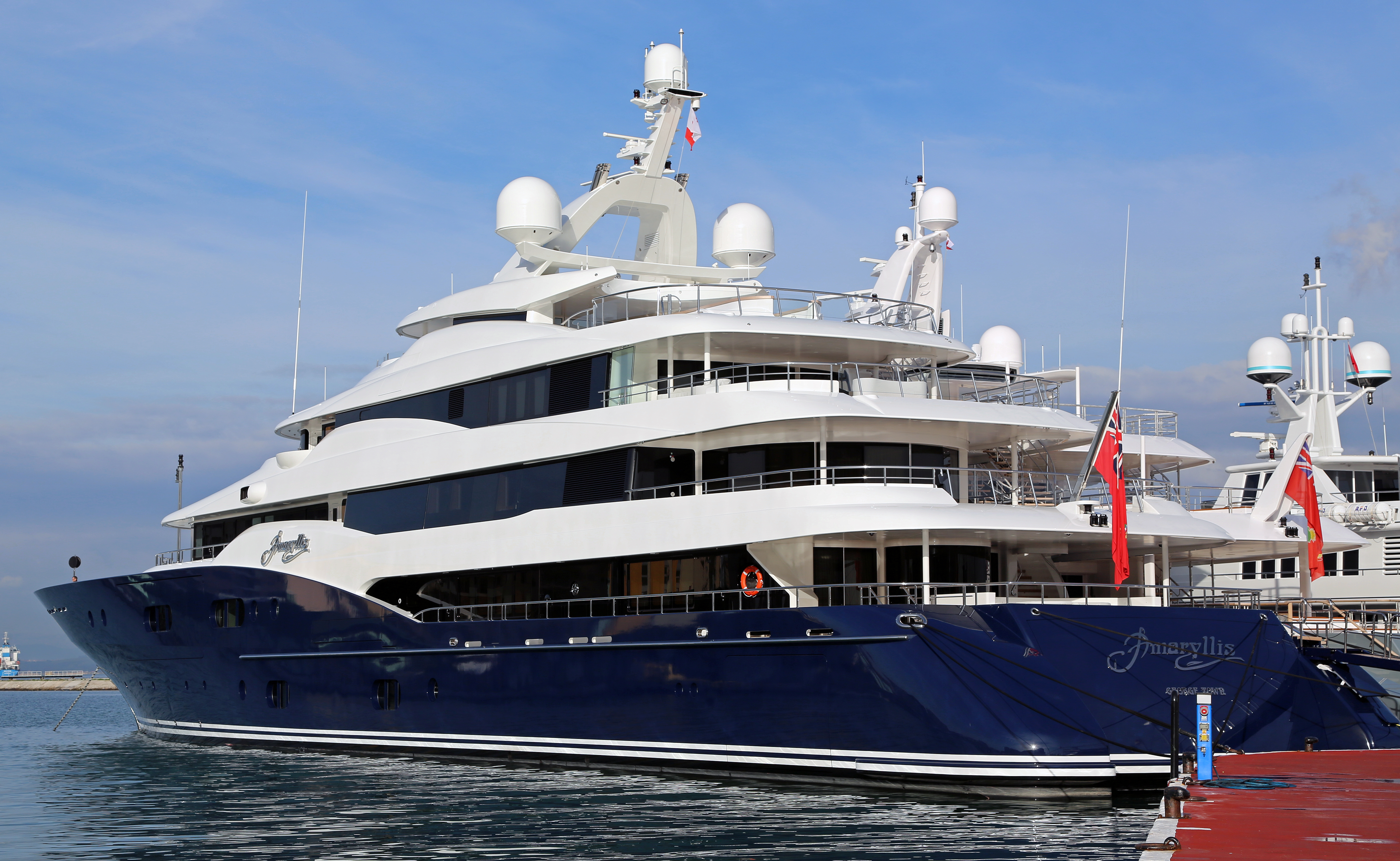 Superyacht M/Y Amaryllis is a 78m motor yacht was launched in 2011 from Abeking & Rasmussen in Lemwerder, Germany. At Marina Bay, Gibraltar